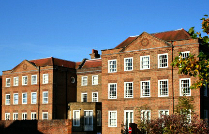 Ebbisham House, 30 Church Street View of the rear of Ebbisham House, from Downside. The building is occupied by the National Counties Building Society. The centre core of the building is listed 2*, but the wings are modern.